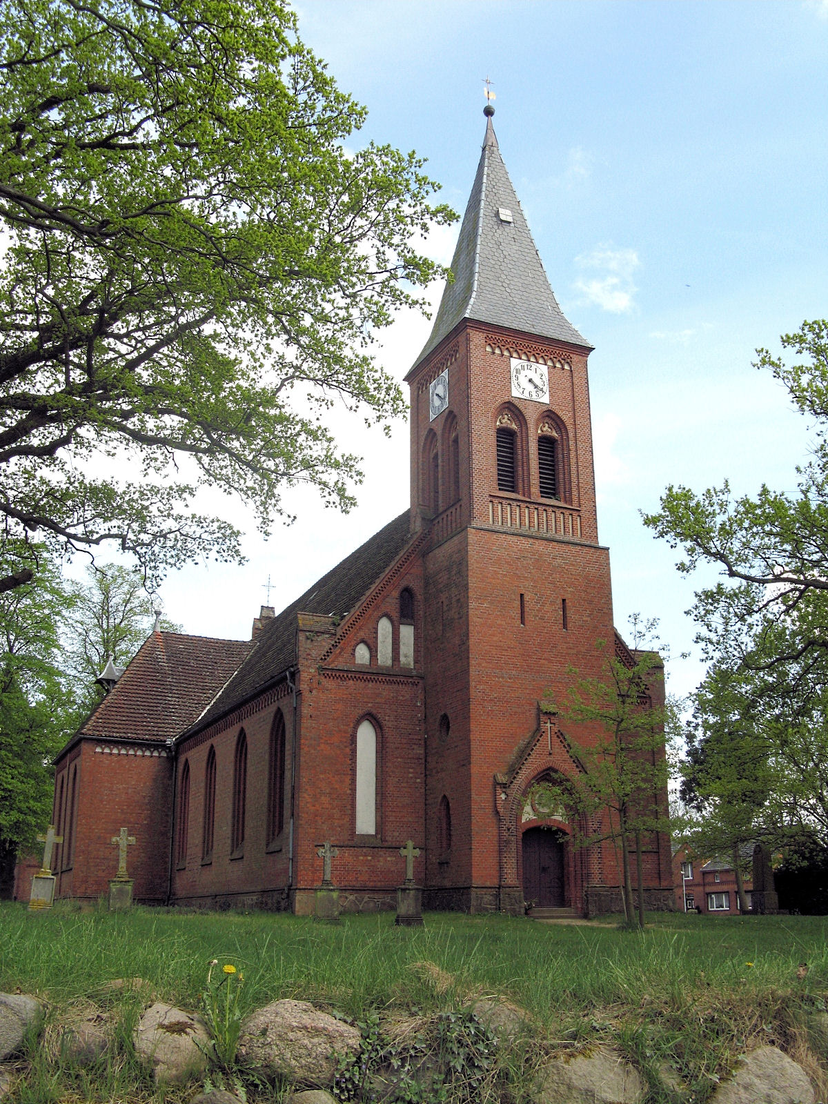 Church in Conow, district ludwigslust, Mecklenburg-Vorpommern, Germany